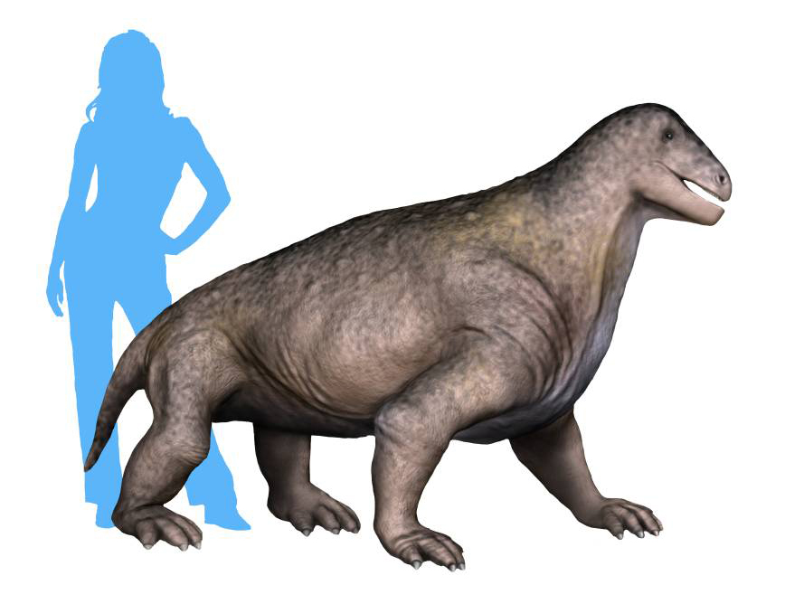 Life restoration of Moschops capensis.